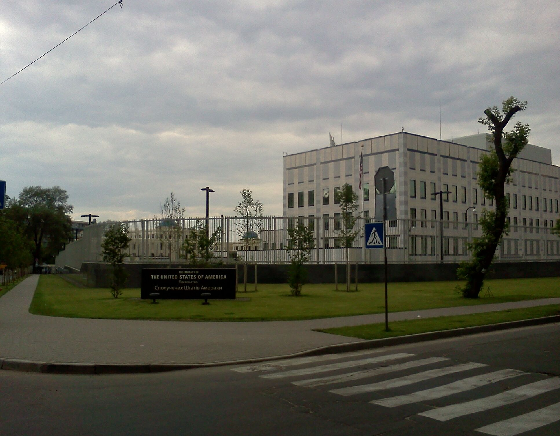 Embassy of USA in Kyiv